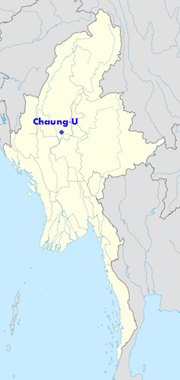 To show Location of Chaung-U in map